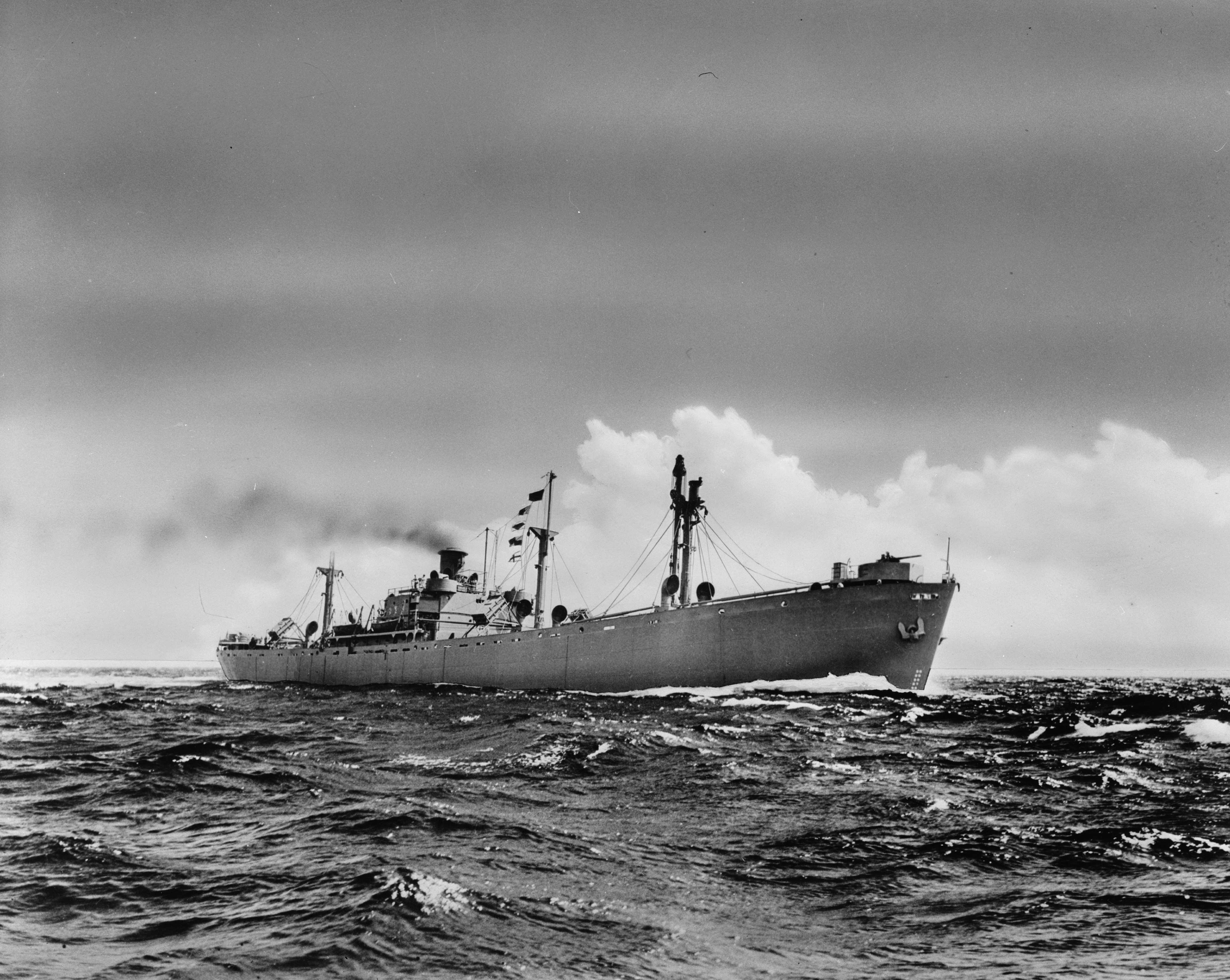 A heavily retouched photo of a U.S. "Liberty" cargo ship (U.S. MARAD design EC2-S-C1), circa 1941/42.